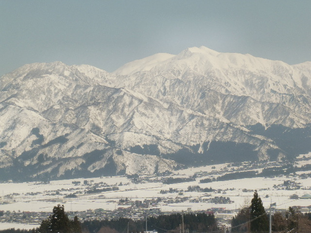 Mounts Kinjo, Ushi and Warimeki in winter as seen from Tochikubo, Minamiuonuma